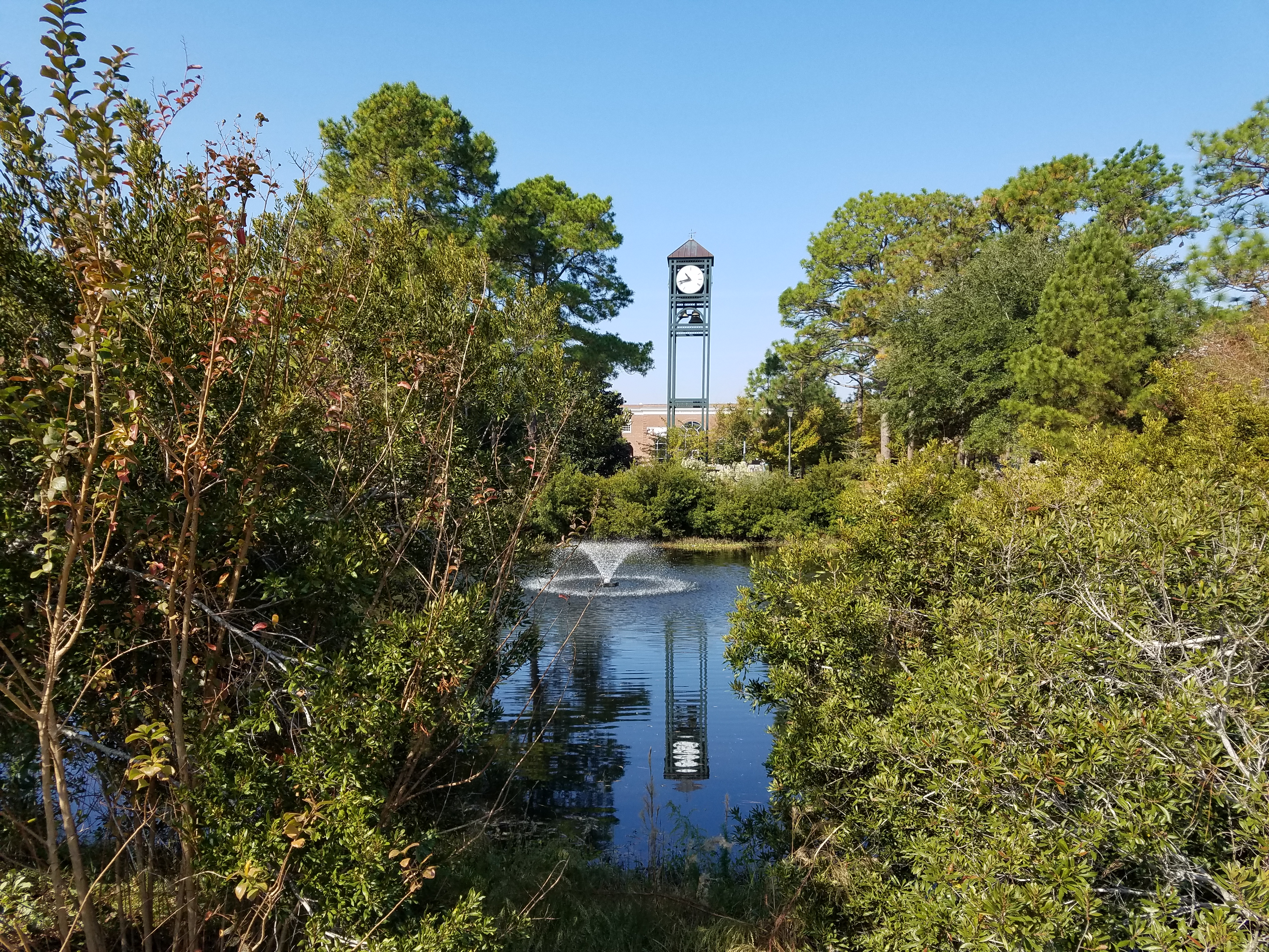 The campus of University of North Carolina Wilmington (UNCW) in Wilmington, North Carolina.